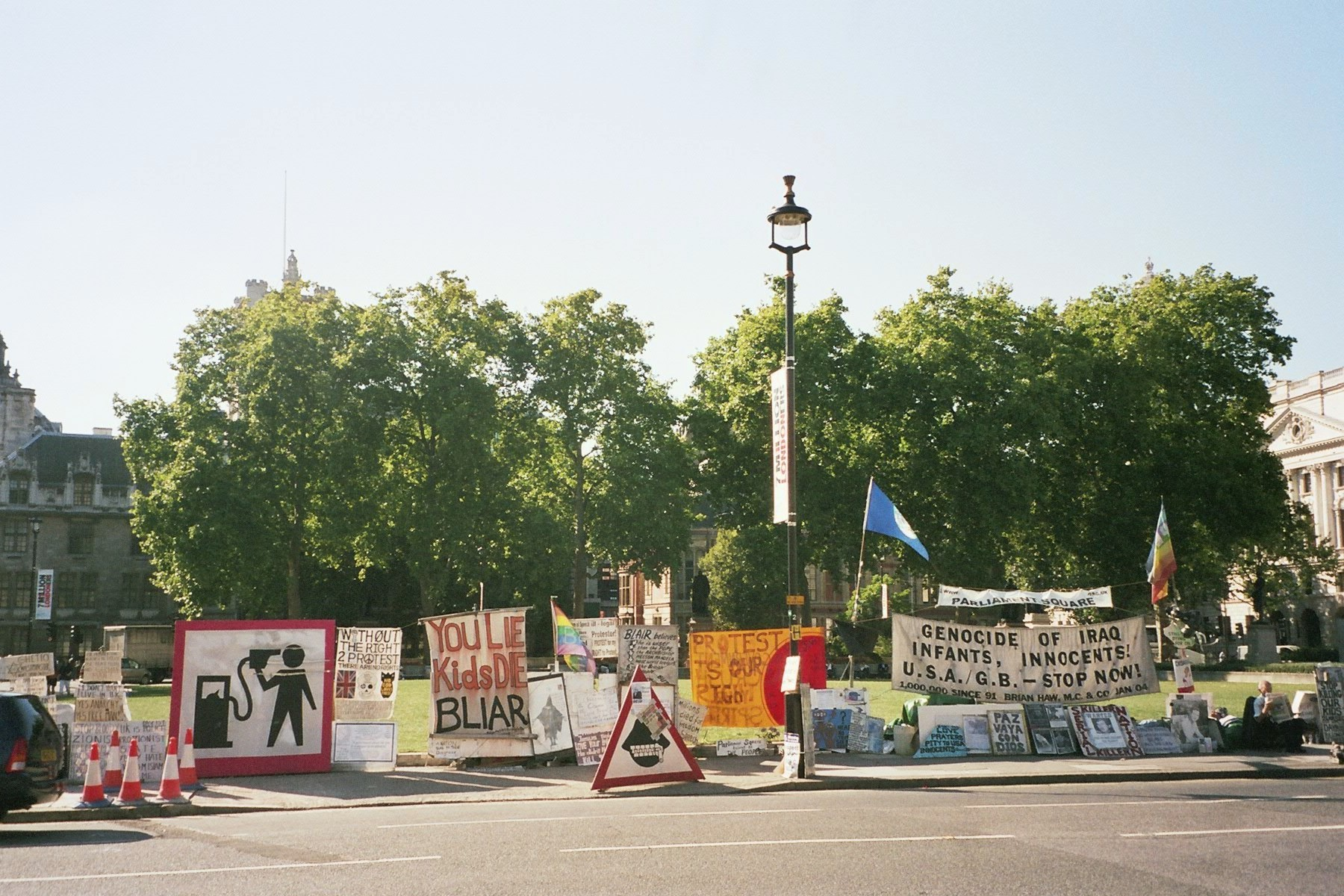 Protests against the Iraq War before the British Parliament in London, around September 8, 2005